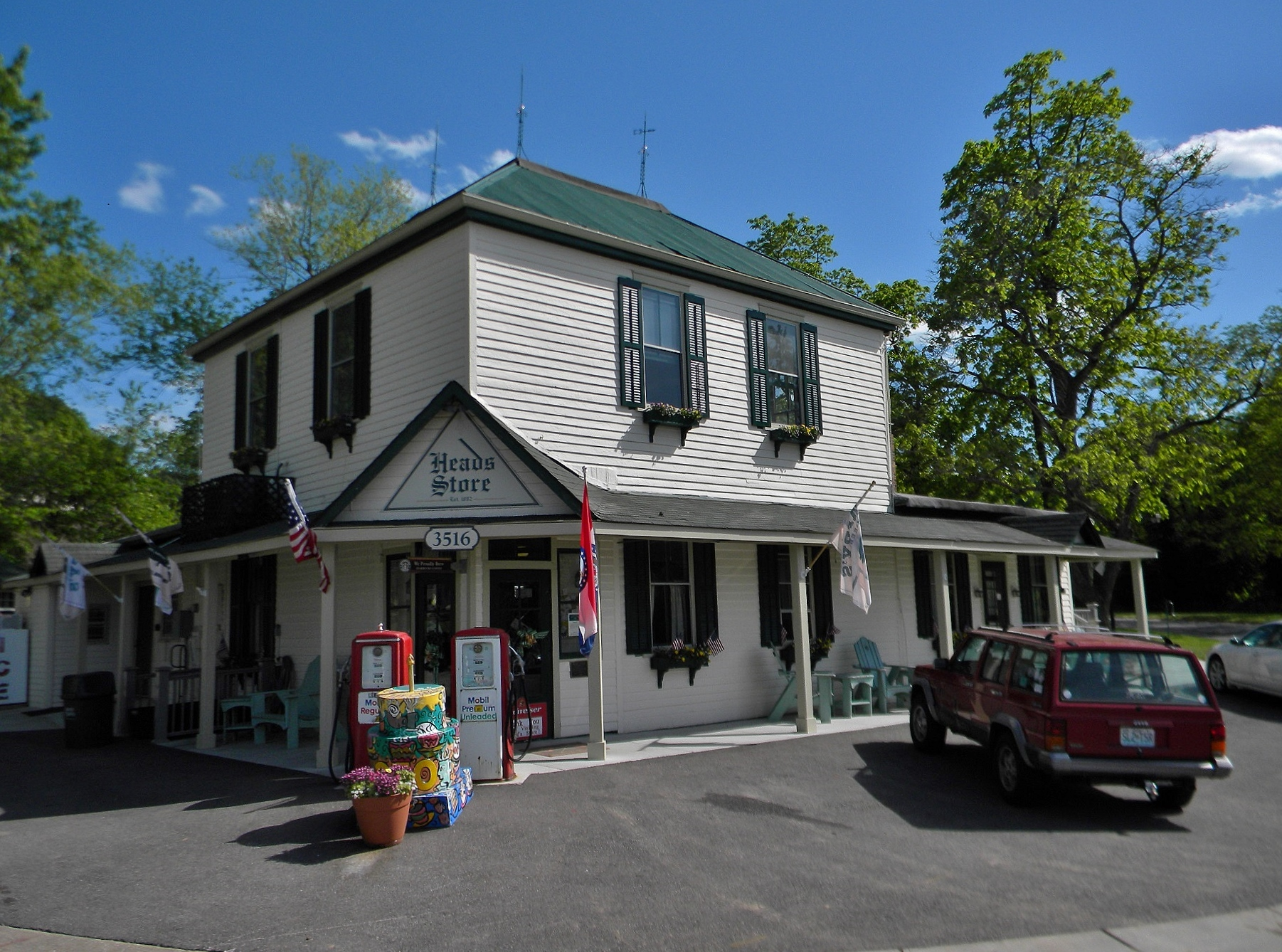 St. Albans General Store Structure is now part of a resort facility and housing development. Co-historian: Bruce Hadley